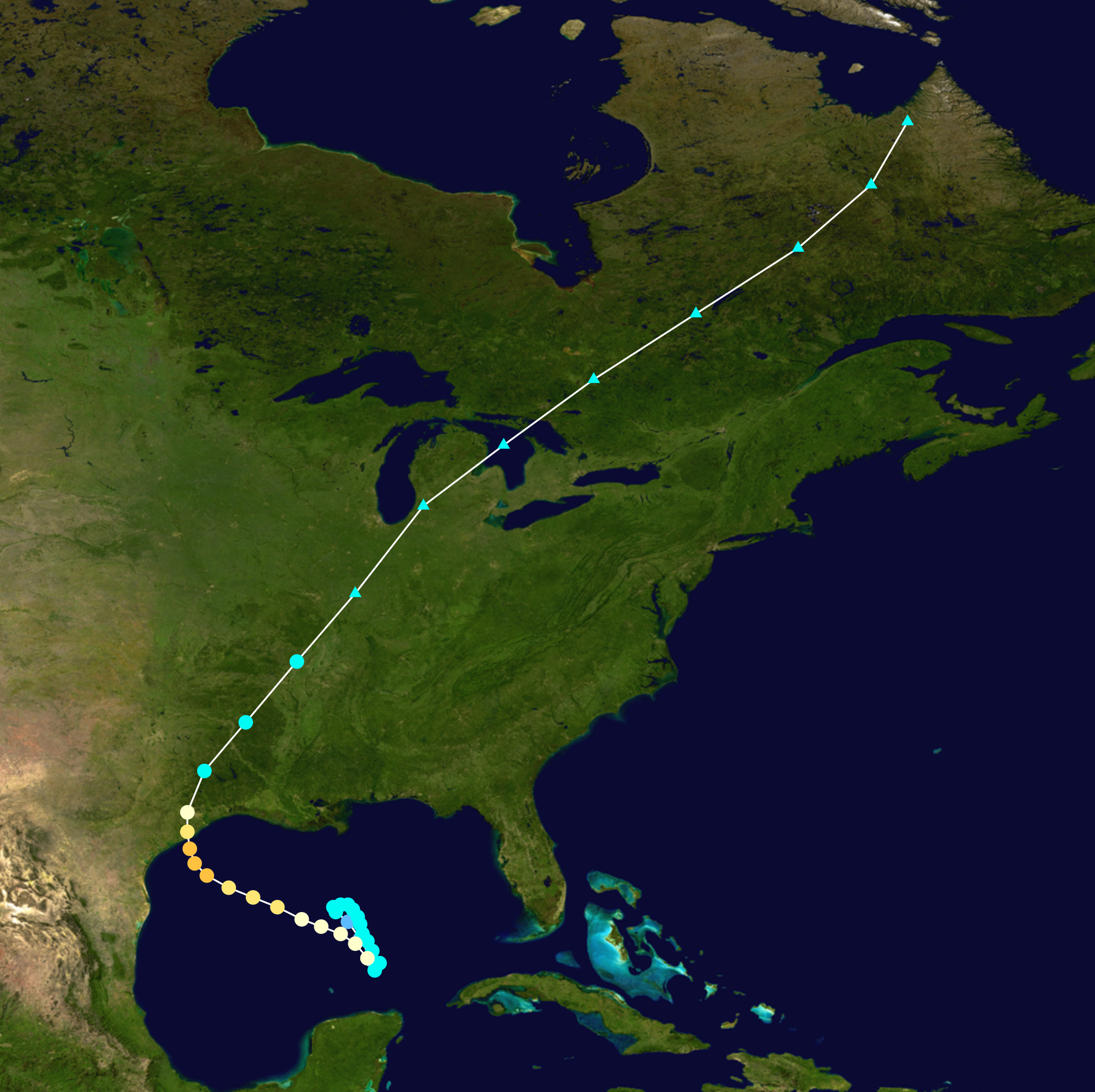 1941 Atlantic hurricane 2 track. Uses the color scheme from the Saffir-Simpson Hurricane Scale.